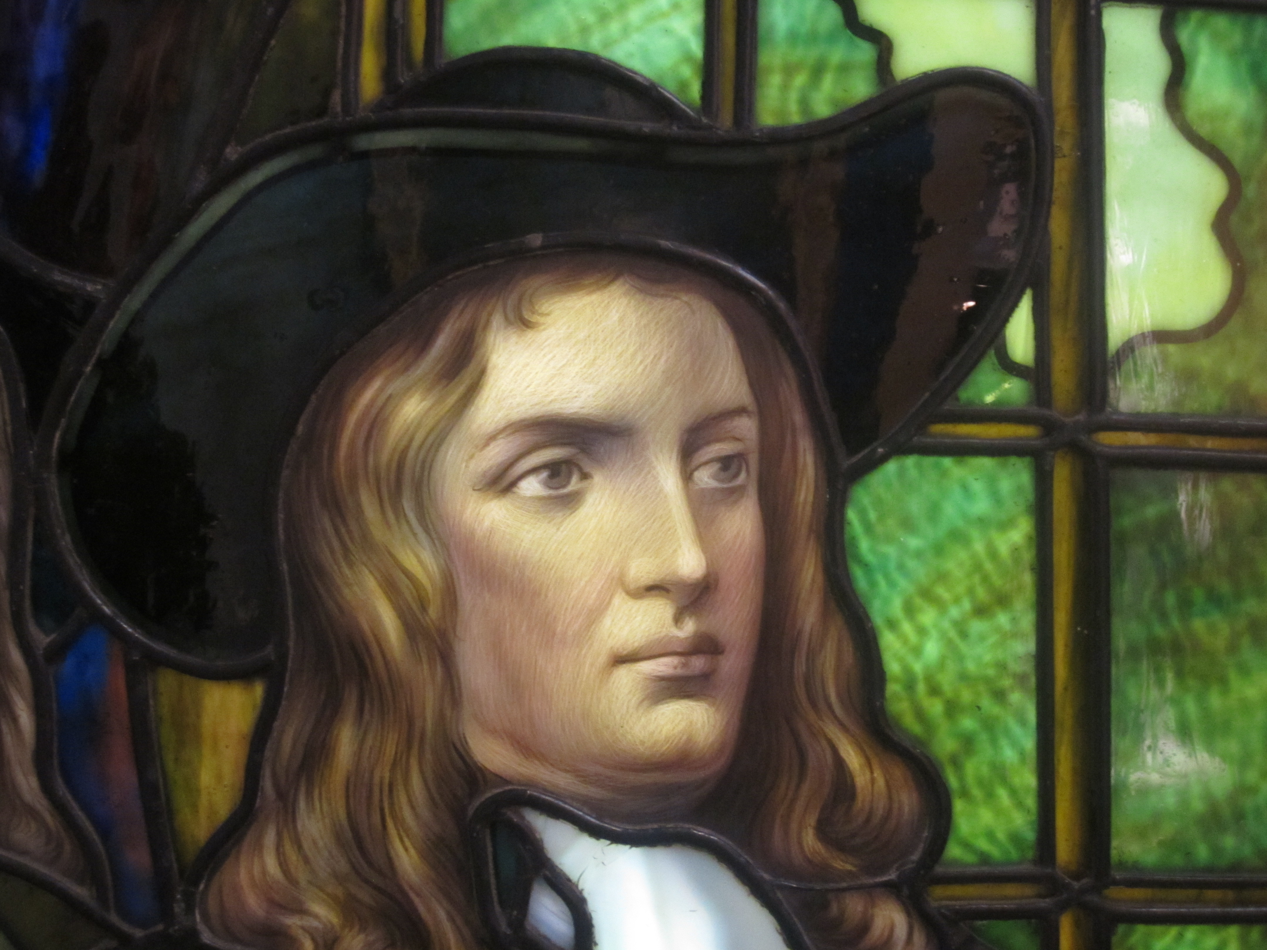 I took photo with Canon camera at Brooklyn Museum of Frederick S. Lamb's stained glass portrait of William Penn